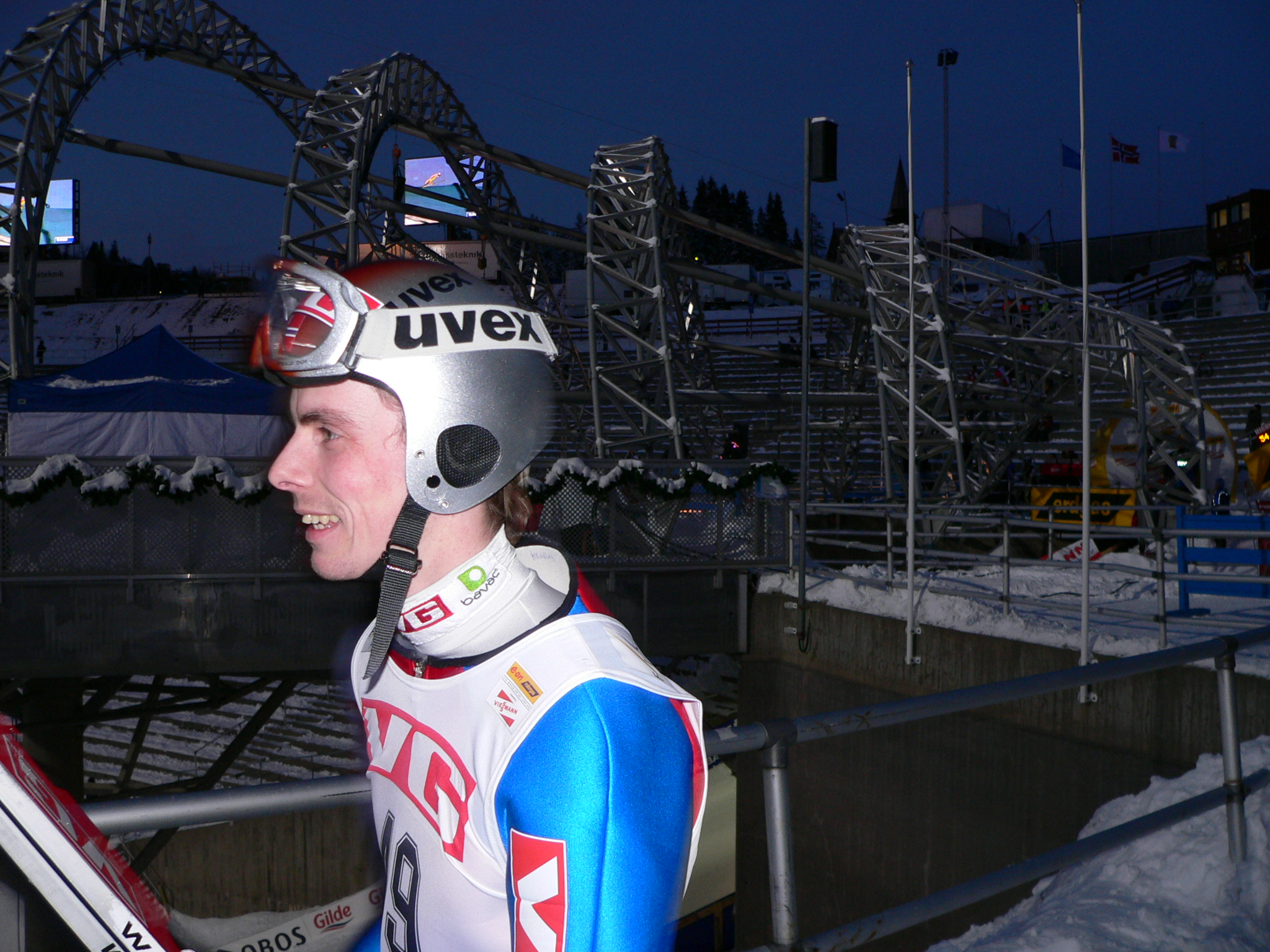 From the 2005 World Cup ski jumping event in Holmenkollen.